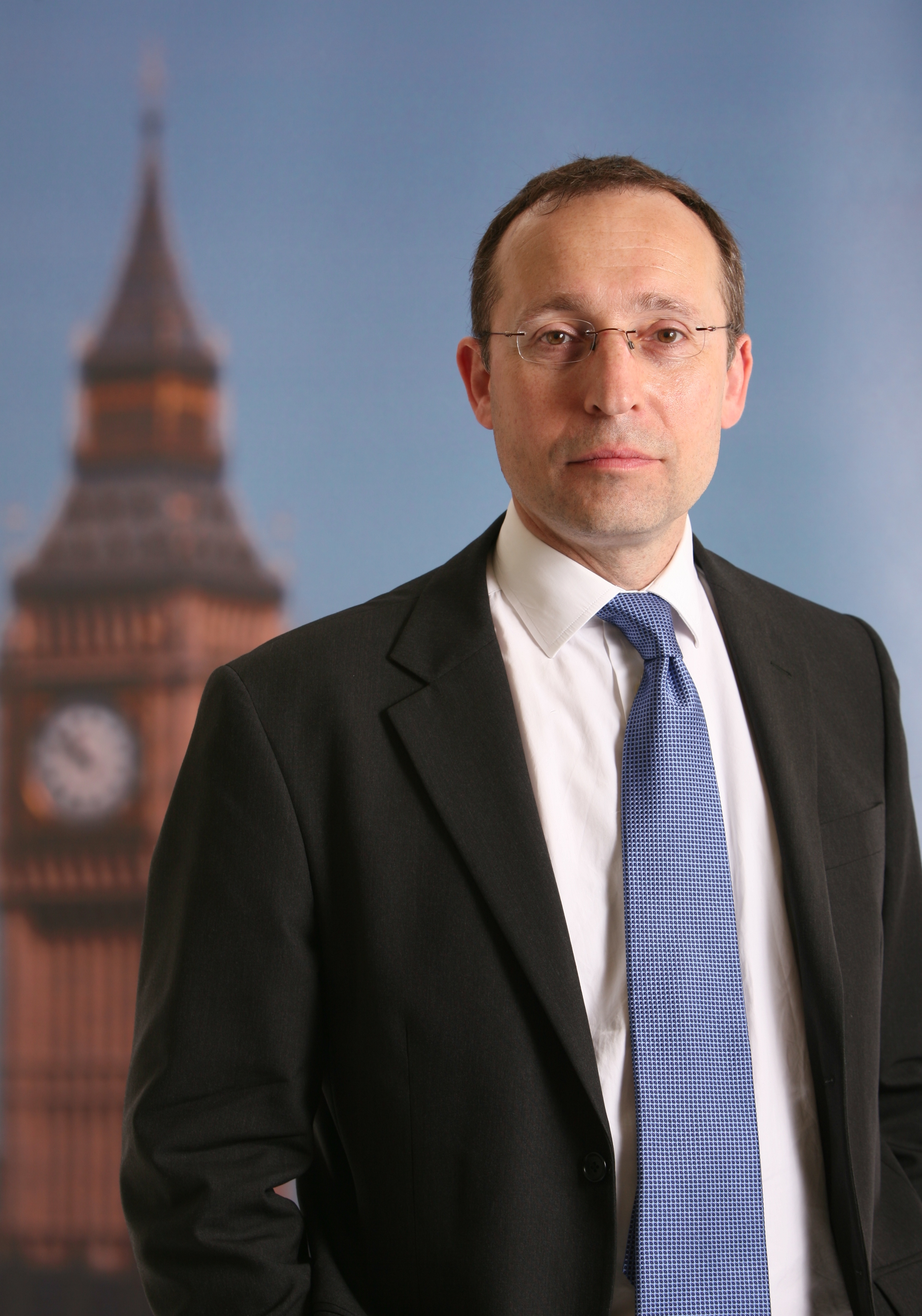 Andrew Slaughter, Member of Parliament for Ealing, Acton and Shepherd's Bush in London